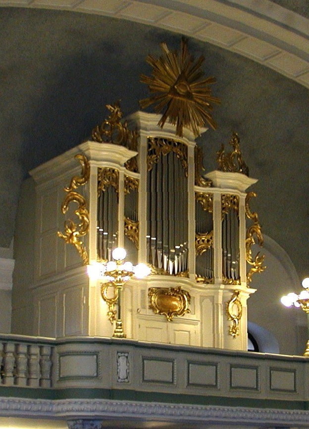 Organ